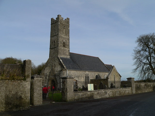 St. Brendan's Cathedral, Clonfert